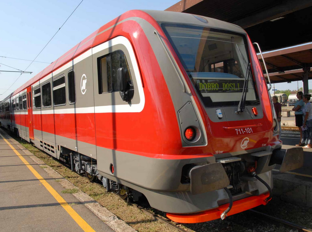 Serbian Railways Class 711